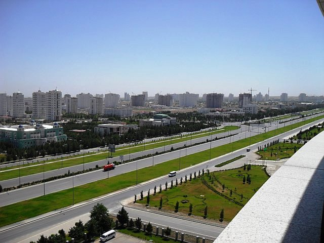 Rebecca S. Morgan, Special Assistant for the Bureau of South and Central Asian Affairs (USA), takes a photo of Aşgabat, Turkmenistan, on June 14-16, 2010. Location: President Hotel Ashgabat, Archabil Chaussee 54